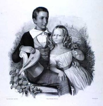 Frederik Christian Carl August, Prince of Augustenborg (1830-1881) with Louise Caroline Henriette Auguste, Princess of Augustenborg (1836-1866)